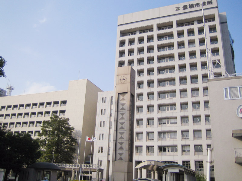 Toyohashi City office (豊橋市役所), Aichi, Japan